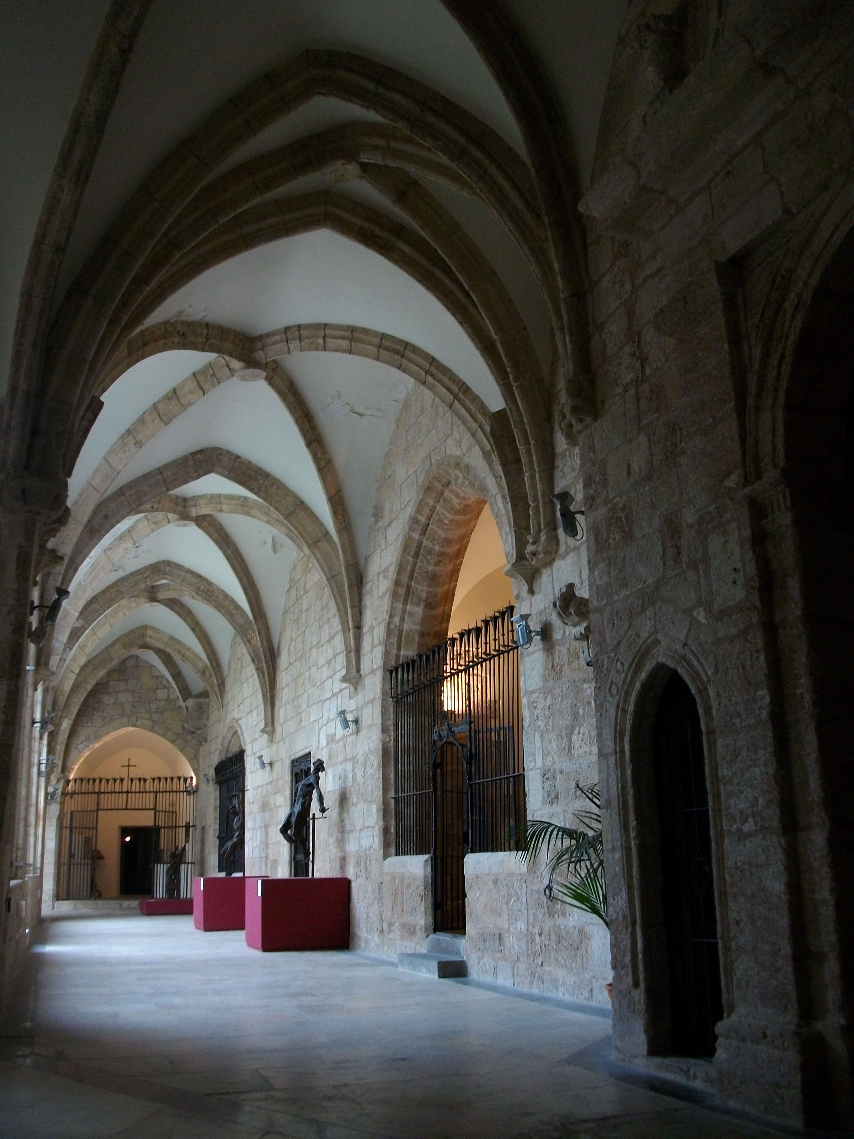 Cloister of the Segorbe cathedral.